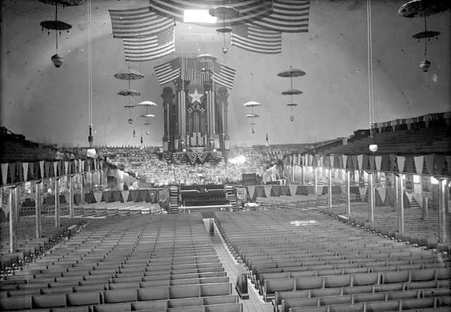 Photo of Salt Lake Tabernacle interior taken by H. S. Poley in 1897. The Tabernacle is decorated with US flags in celebration of Utah statehood (granted 1896) and the 50 year anniversary of Mormon pioneers entering Salt Lake Valley in 1847. Notice the organ, which is smaller than in later photos of the pipe organ. The Salt Lake Tabernacle is a historic building of The Church of Jesus Christ of Latter-day Saints.